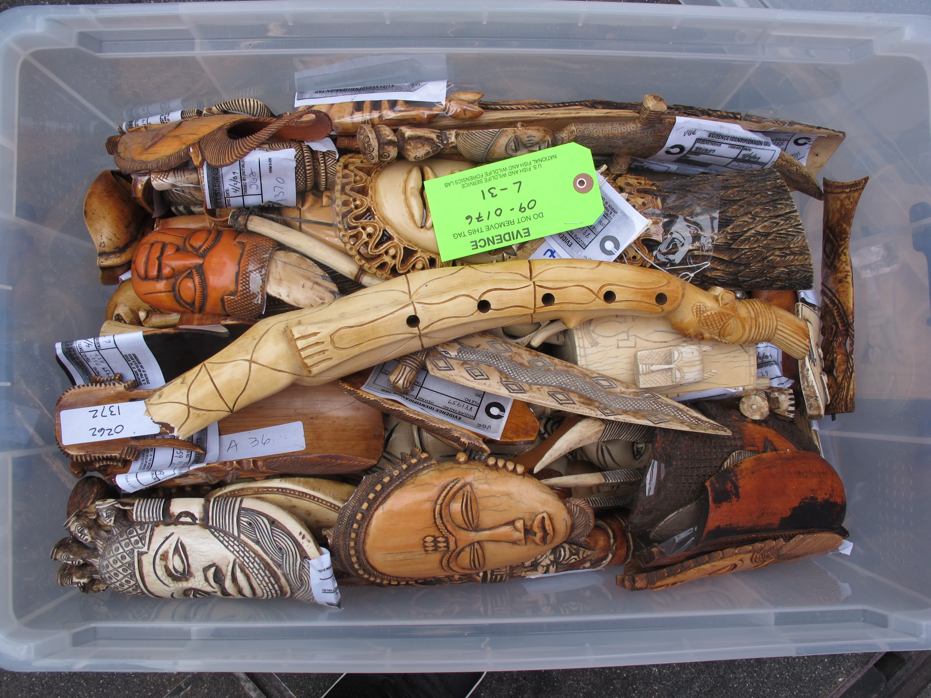 Photo Credit: Heidi Ruffler/FWS On the morning of June 19, 2015, in Times Square, New York City, the U.S. Fish and Wildlife Service, with wildlife and conservation partners, hosted its second ivory crush event. One ton of ivory we seized during an undercover operation, plus other ivory from the New York State Department of Environmental Conservation and the Association of Zoos and Aquariums was crushed.